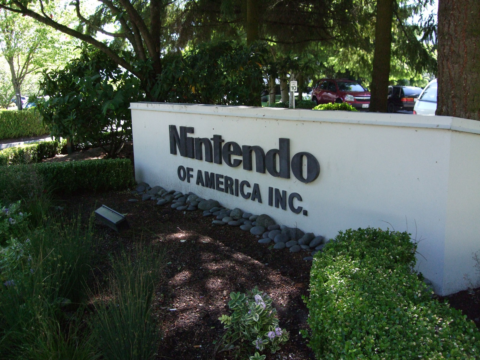 Nintendo of America headquarters in Redmond, WA